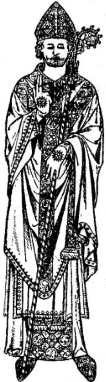 Monumental figure of Bishop Johannes of Lübeck, in Lübeck Cathedral. Screen capture from Encyclopædia Britannica 11th edition, vol. 27, p. 1058.